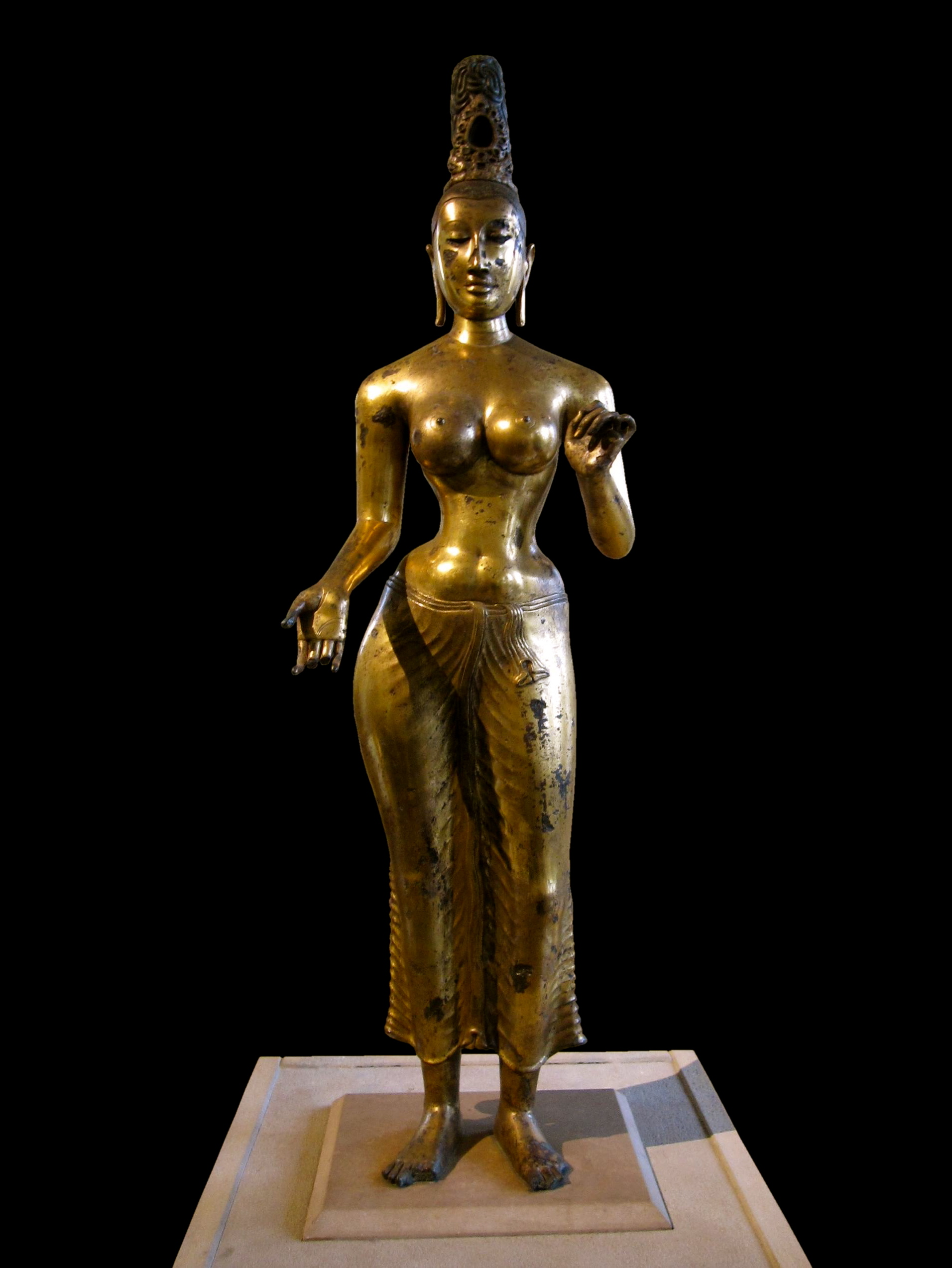 The Bodhisattva Tara. Gilded bronze, Sri Lanka, 8th century CE. With her right hand, the bodhisattva makes varadamudra, the gesture of charity or gift-giving, while her left hand may originally have held a lotus. The image is solid cast and would once have had semi-precious stone or crystal inlaid eyes. The niche in the head-dress would have contained a figure of a Dhyani Buddha. This sculpture was found on the east coast of Sri Lanka between Batticaloa and Trincomalee and is evidence of the presence of Mahayana Buddhism in the Anuradhapura period of Sri Lanka. These doctrines are generally more associated with the north of India. Given by Sir Robert Brownrigg. OA 1830.6-12.4. British Museum.